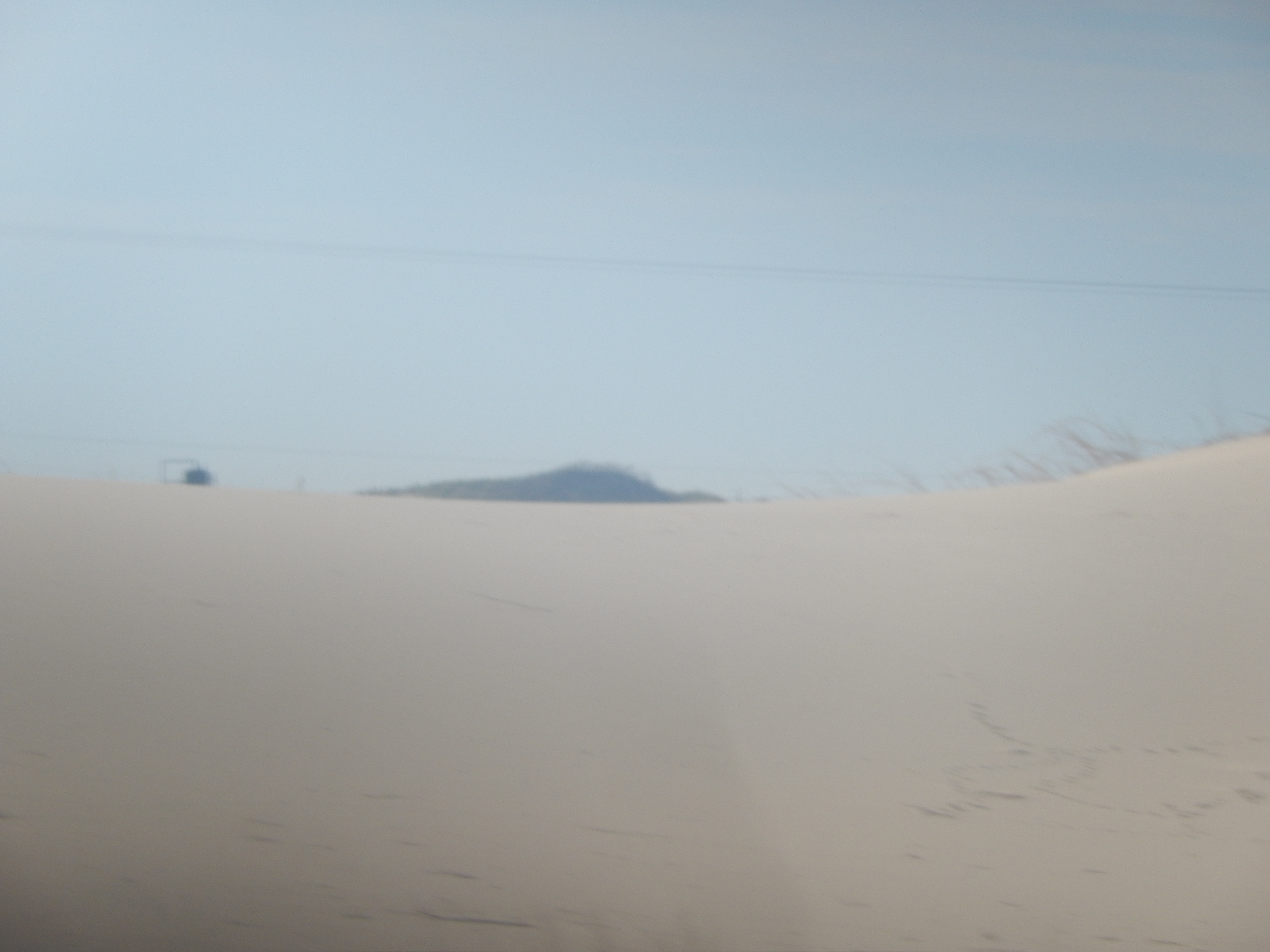 I took photo of Imperial sand dunes near Imperial, TX, with Nikon camera.